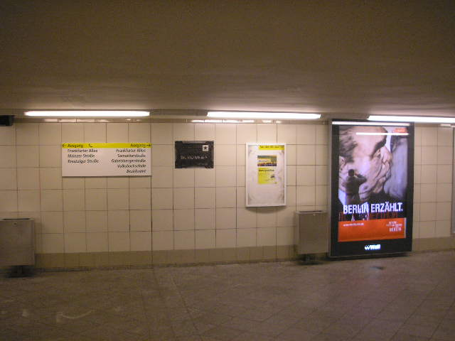 Memorial plaque from 2007 for Silvio Meier, murdered in 1992 by neonazis on subway station Samariterstraße in Berlin